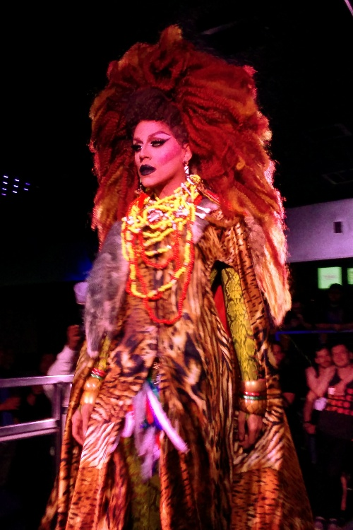 Yara Sofia performing at The Café in San Francisco, California, United States